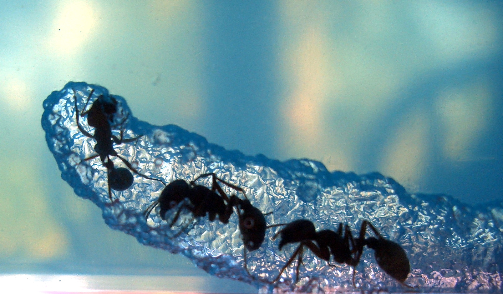 Ants Tunneling Through NASA Gel